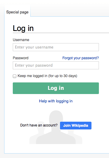 A screenshot of the English Wikipedia login form. Uploaded to replace an image that became outdated due to an update in the design of the buttons.